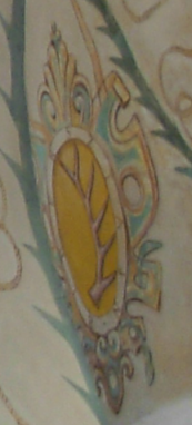 Biberstein coat of arms in Baranow-Sandomierski castle.